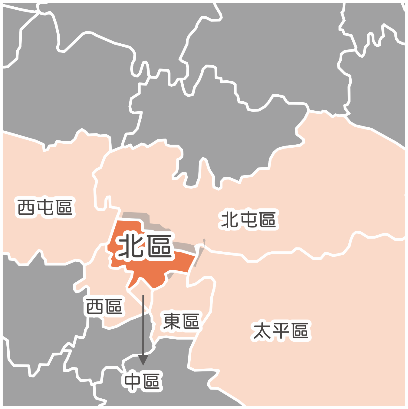 Bei District